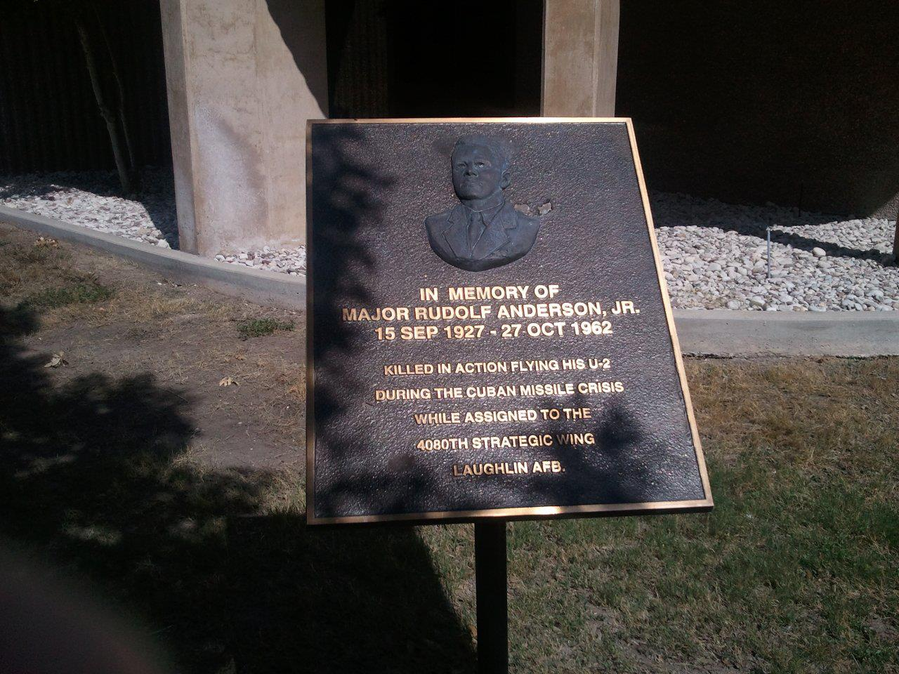 Photo of Major Rudolf Anderson's memorial at Laughlin AFB, TX.